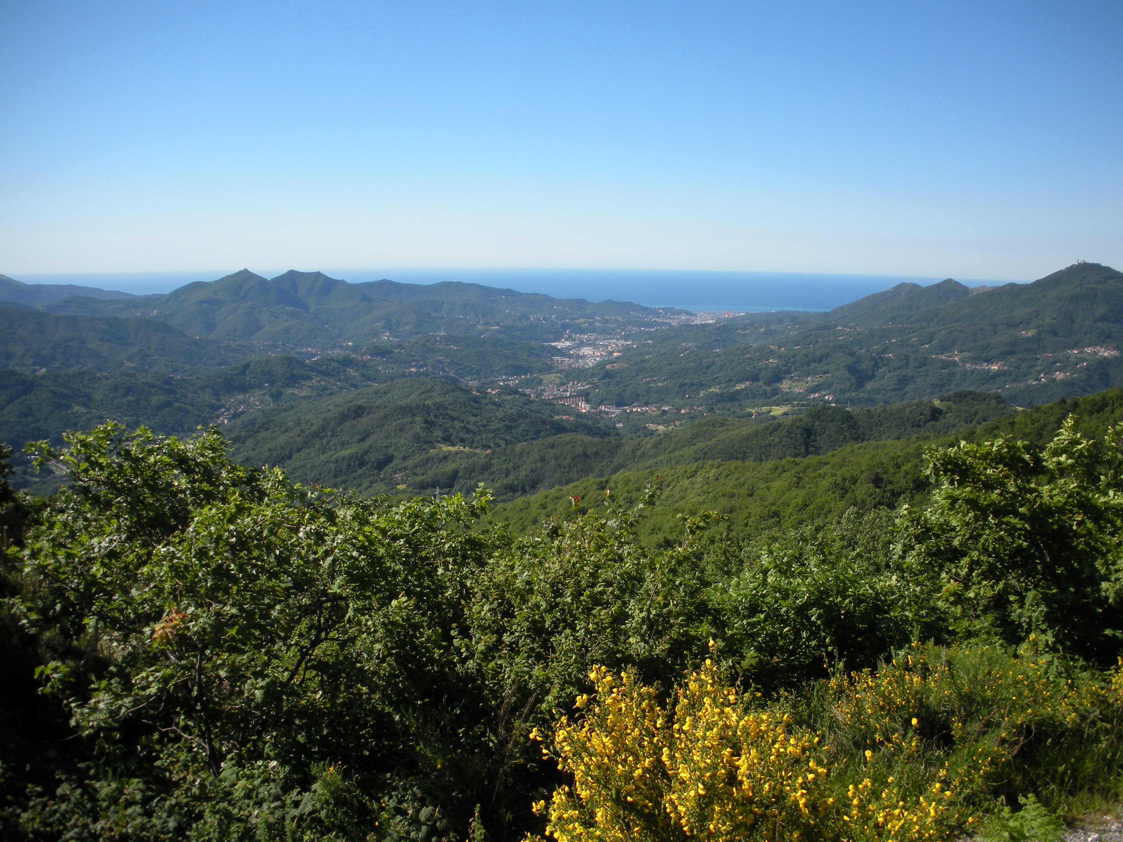 View of Val Polcevera (province of Genoa, Italy) from Bocchetta Pass